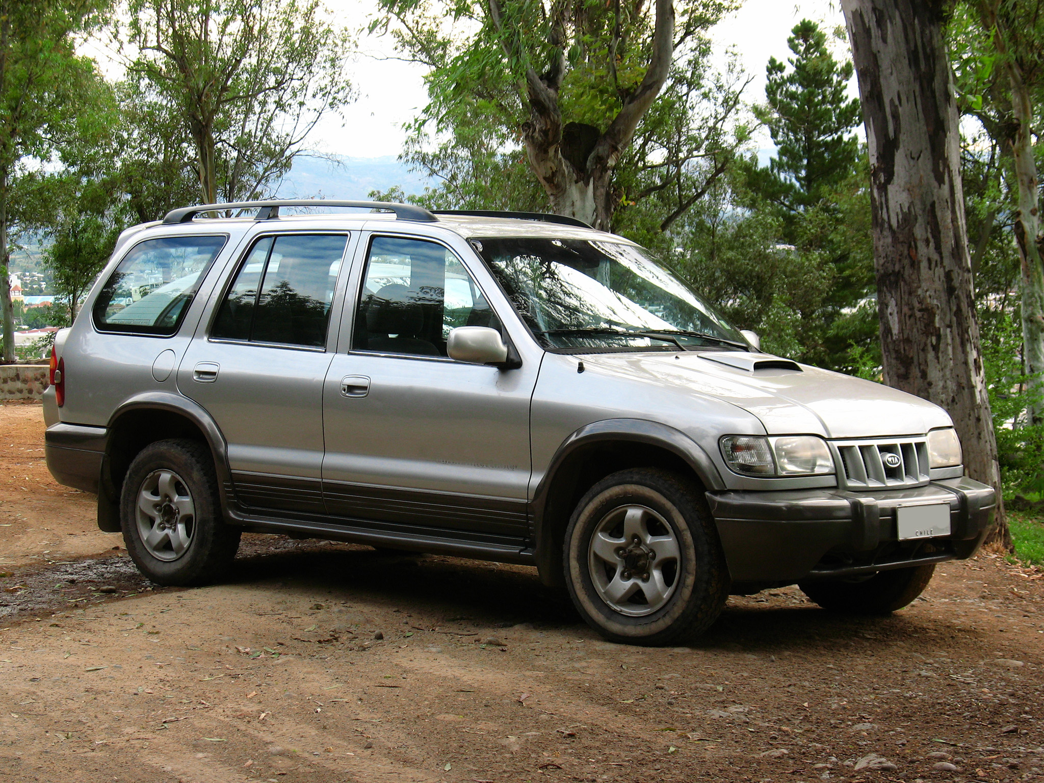 Kia Sportage Grand 2.0 Turbo 2002